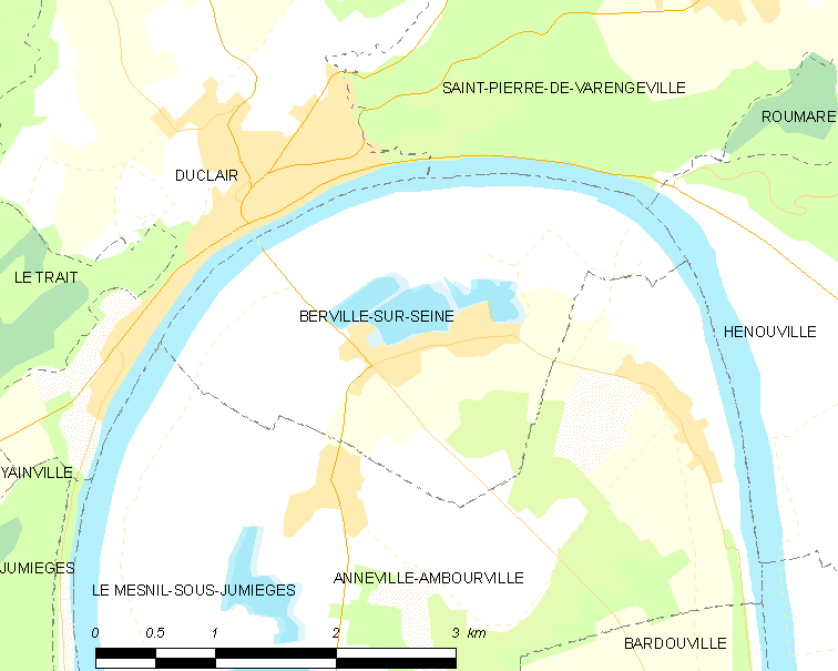 Map of French municipality Berville-sur-Seine